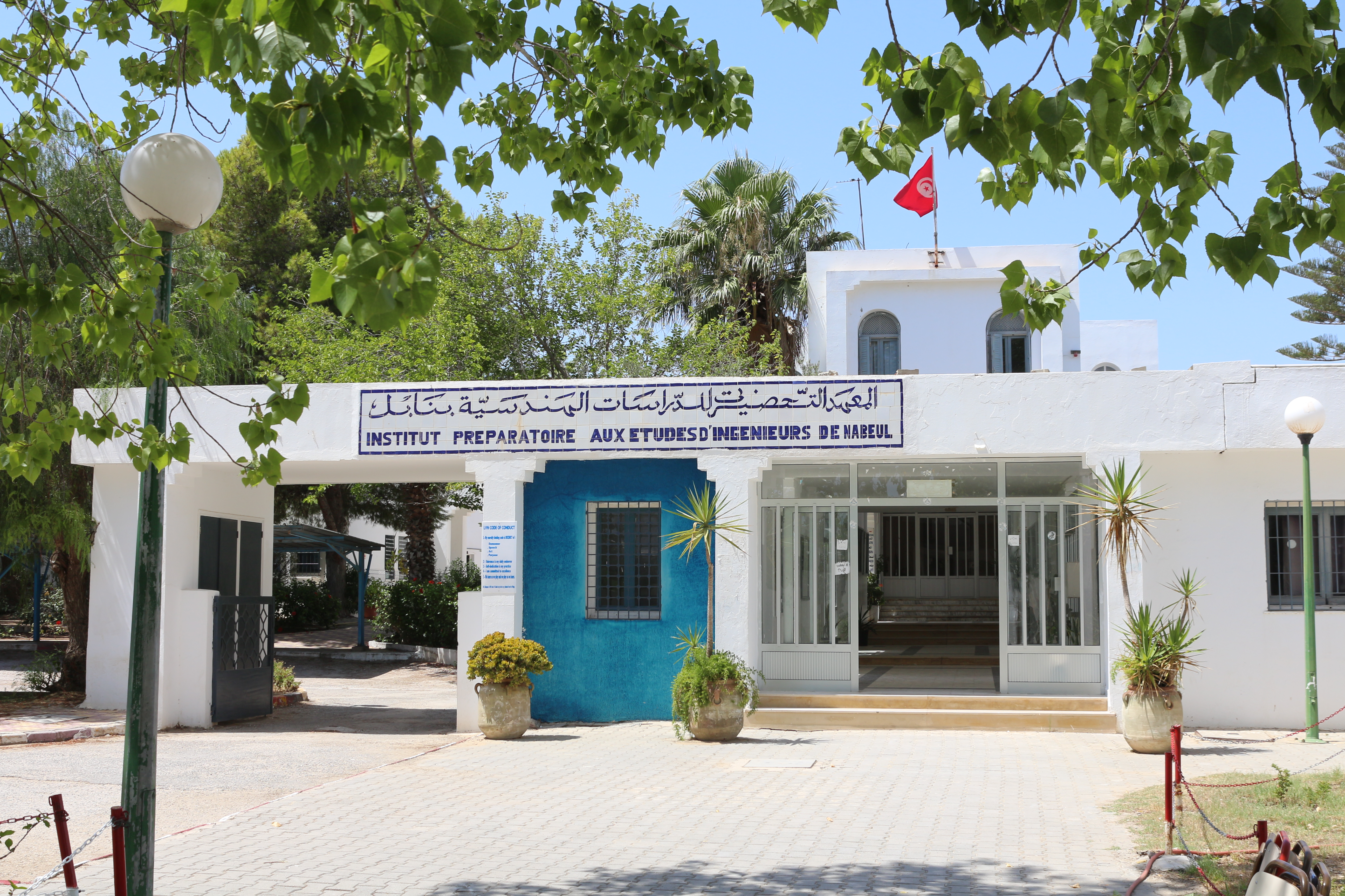 Preparatory Institute of Nabeul, 2015